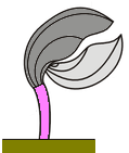 Valves and pedicle of articulate brachiopod. Ref.